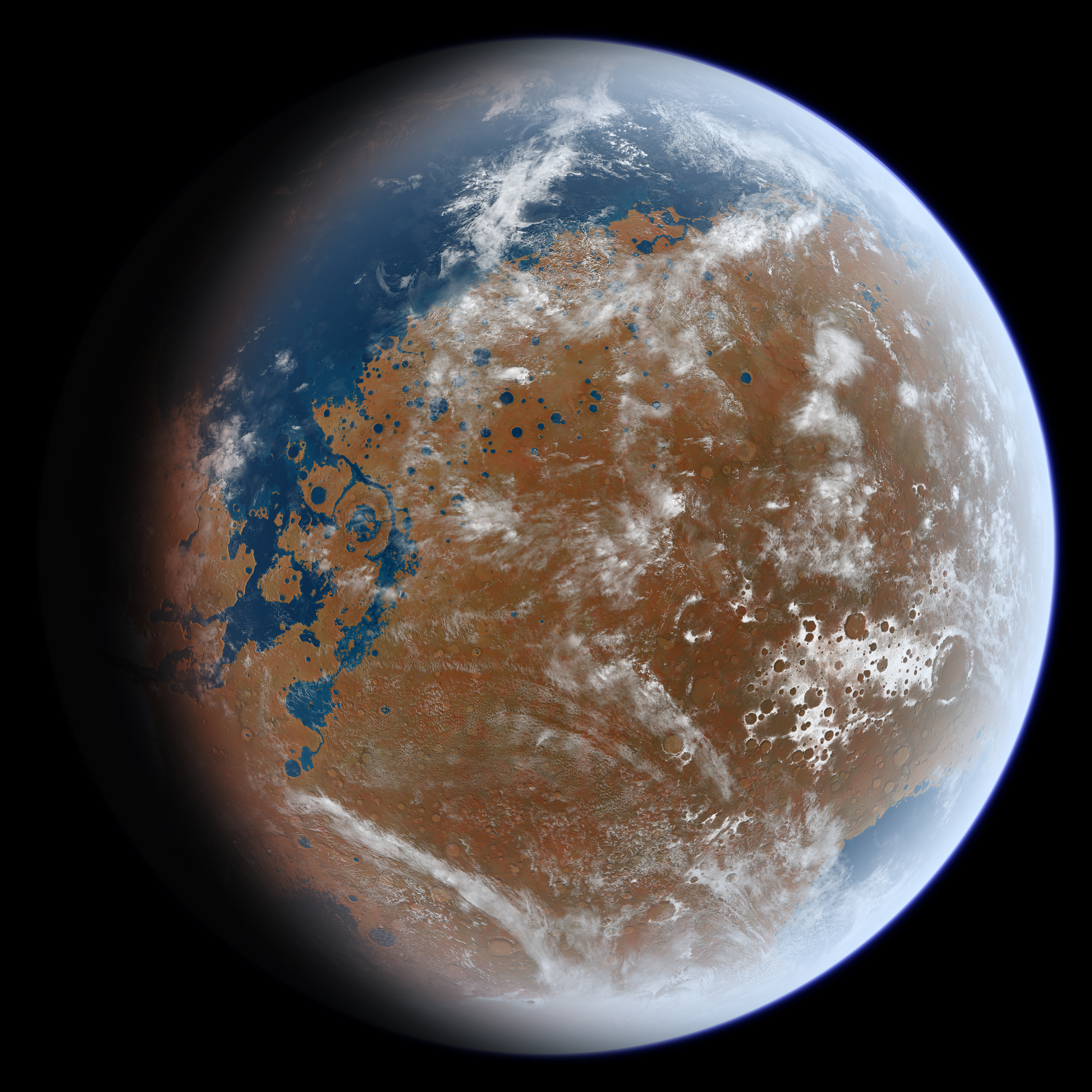 What ancient mars may have looked like billions of years ago. It's based on MOLA data. The elevations have been updated so the shore lines will closely approximate their ancient locations. Also any mountains less than two billion years old have been removed.